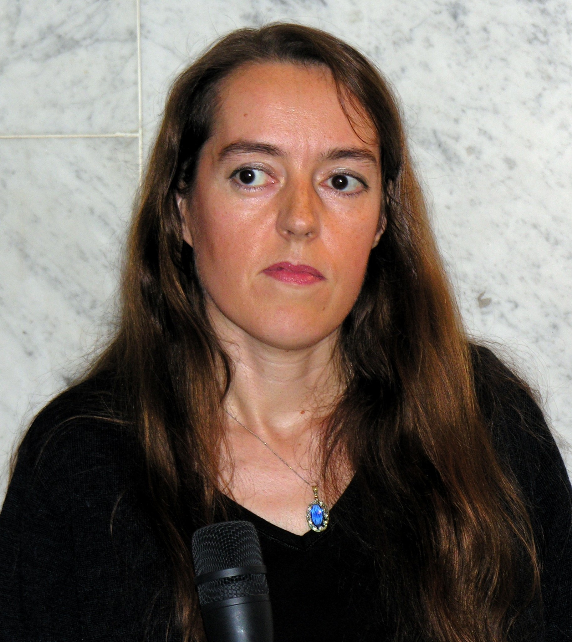 Heidi Liehu, Finnish philosopher and poet, Night of the Arts in Helsinki, 2008.